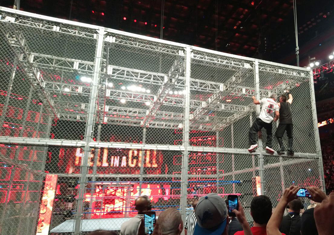 Shane McMahon and Kevin Owens grapple precariously on the side of the Cell, just above the Spanish announce table at the 2017 'Hell in a Cell' event in Detroit, Michigan.